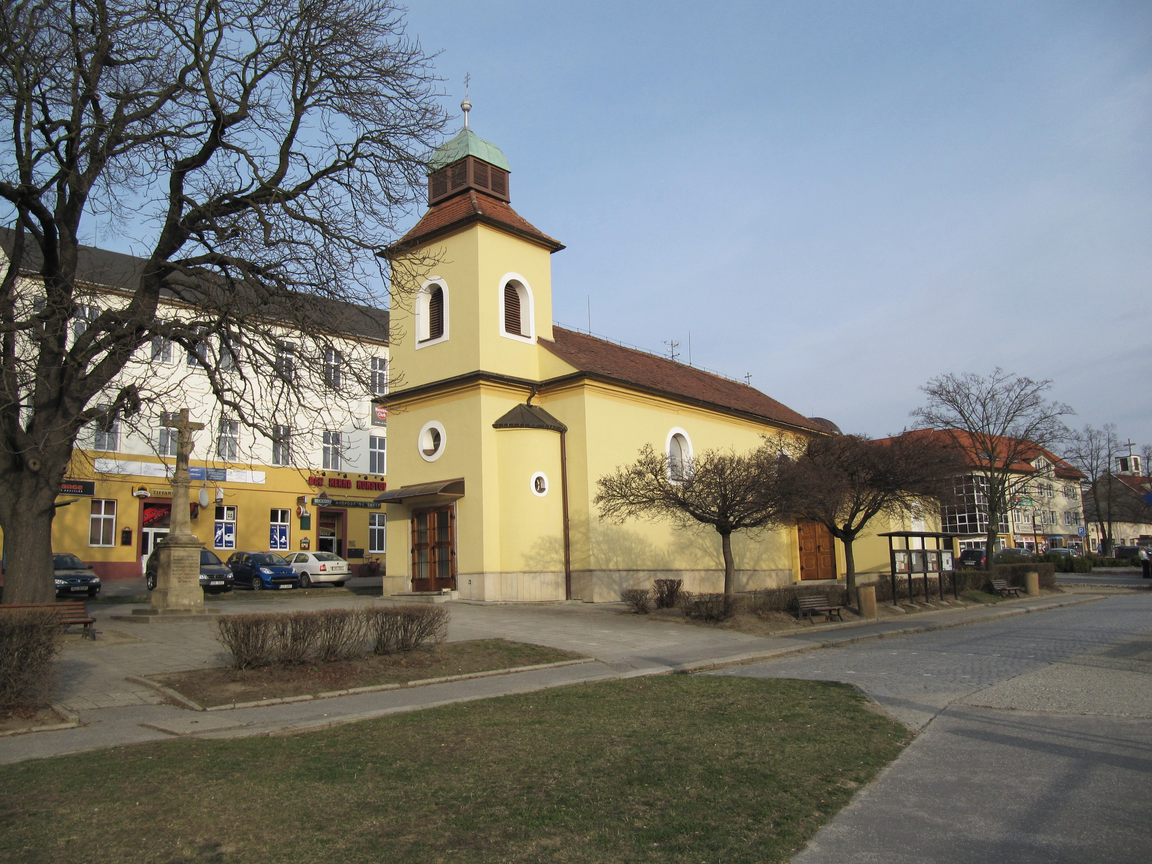 Otrokovice in Zlín District, Czech Republic. Square Náměstí 3. května, church of St. Michael the Archangel.